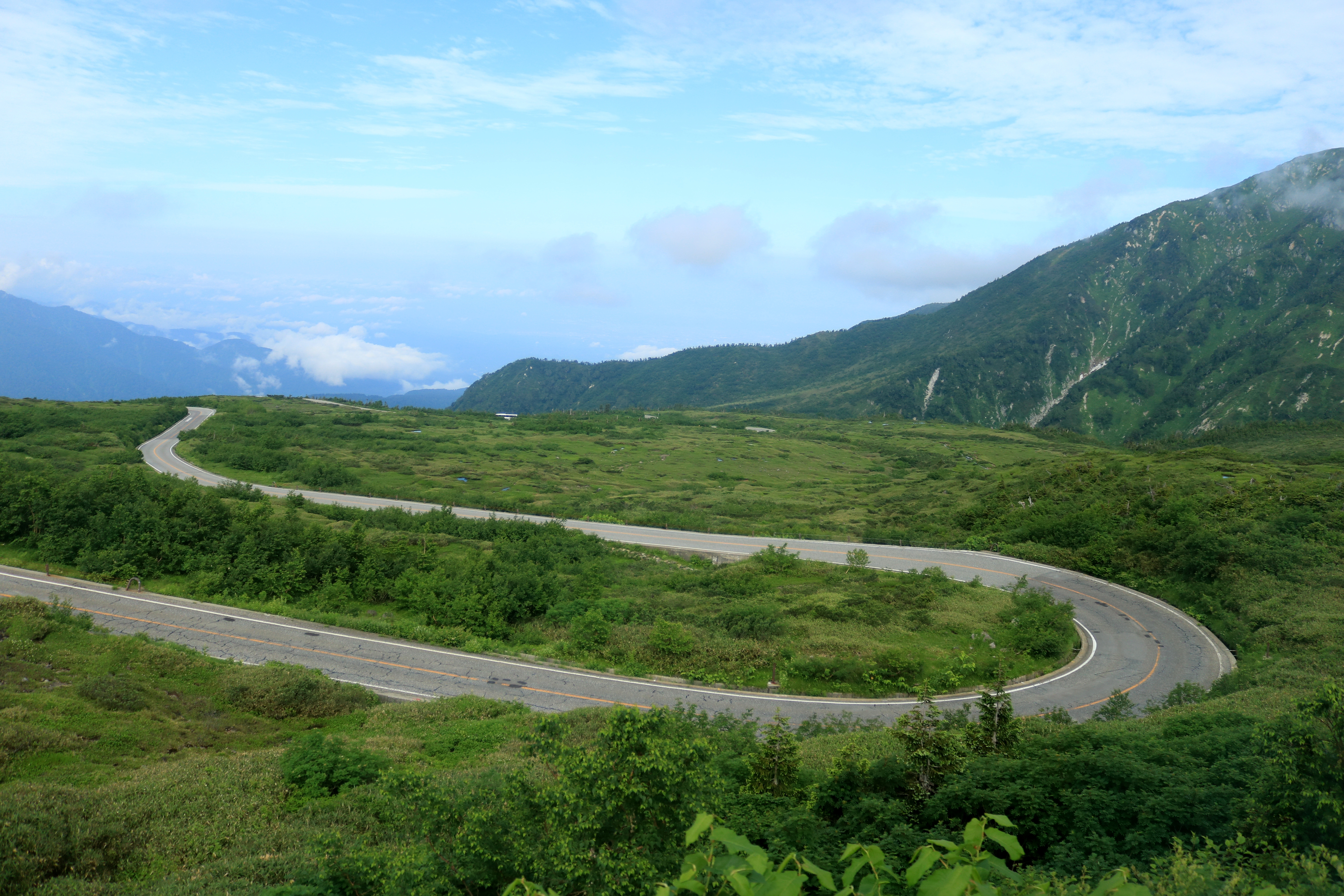 Tateyama Toll Road of Tateyama Kurobe Alpine Route around Tengudaira seen from Bus in Tateyama, Toyama prefecture, Japan.